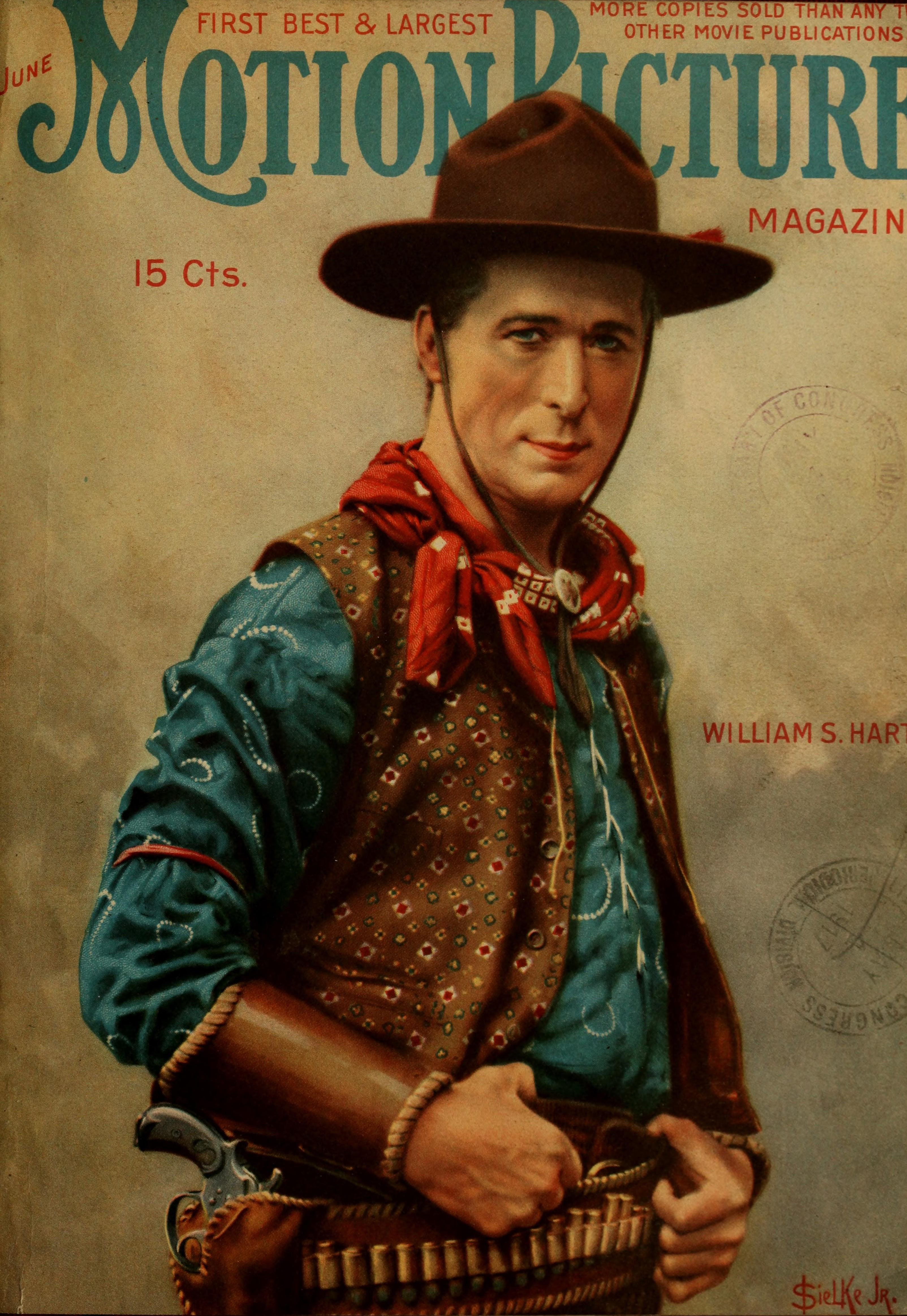 William S. Hart, Leo Sielke, Jr.